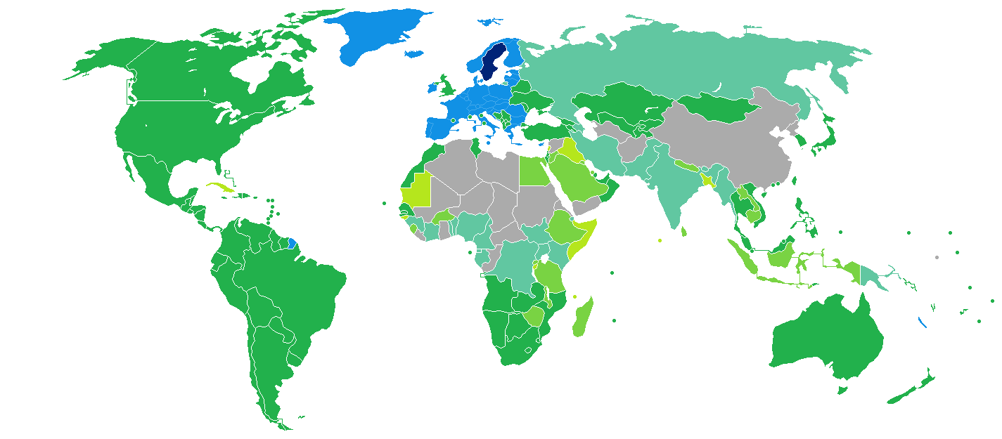 Visa requirements for Swedish citizens Sweden Freedom of movement Visa not required Visa on arrival eVisa Visa available both on arrival or online Visa required prior to arrival